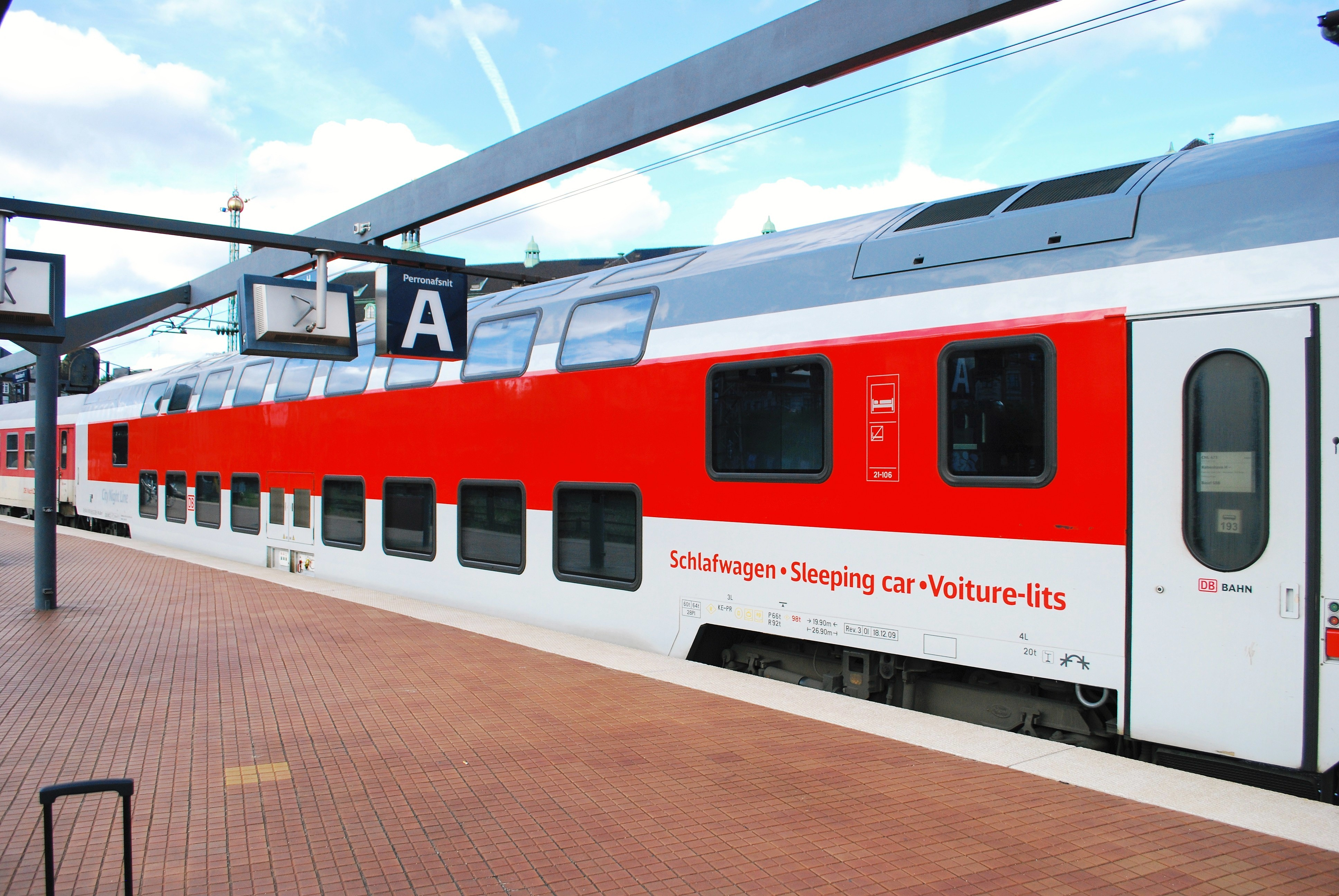 DB Double Deck Sleeper Coach at Kobenhavn on the "Borealis" City Night Line Sleeper, 6/10.